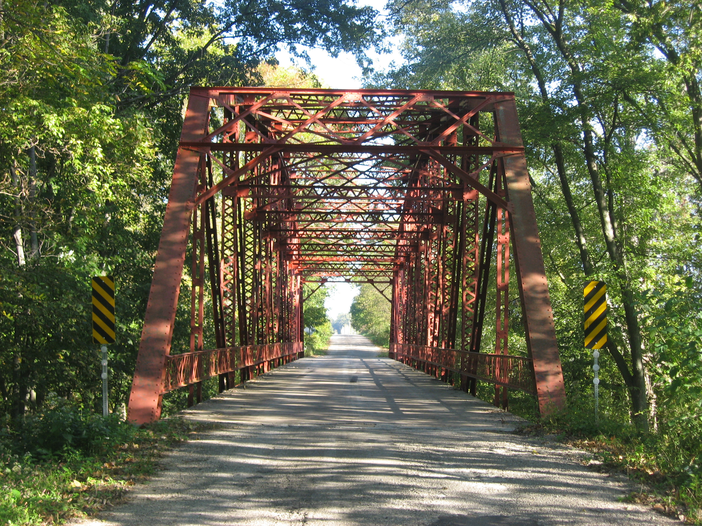 Southern portal of the County Line Bridge, which carries County Road 900E/1000W over the Big Blue River northeast of Morristown on the border between Blue River Township in Hancock County and Ripley Township in Rush County in the U.S. state of Indiana. Built in 1916, it is listed on the National Register of Historic Places.